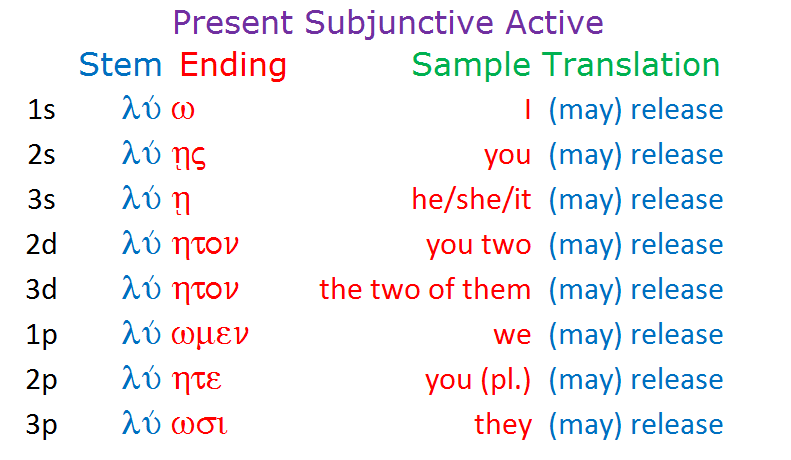 Ancient Greek: Present Subjunctive Active of luo